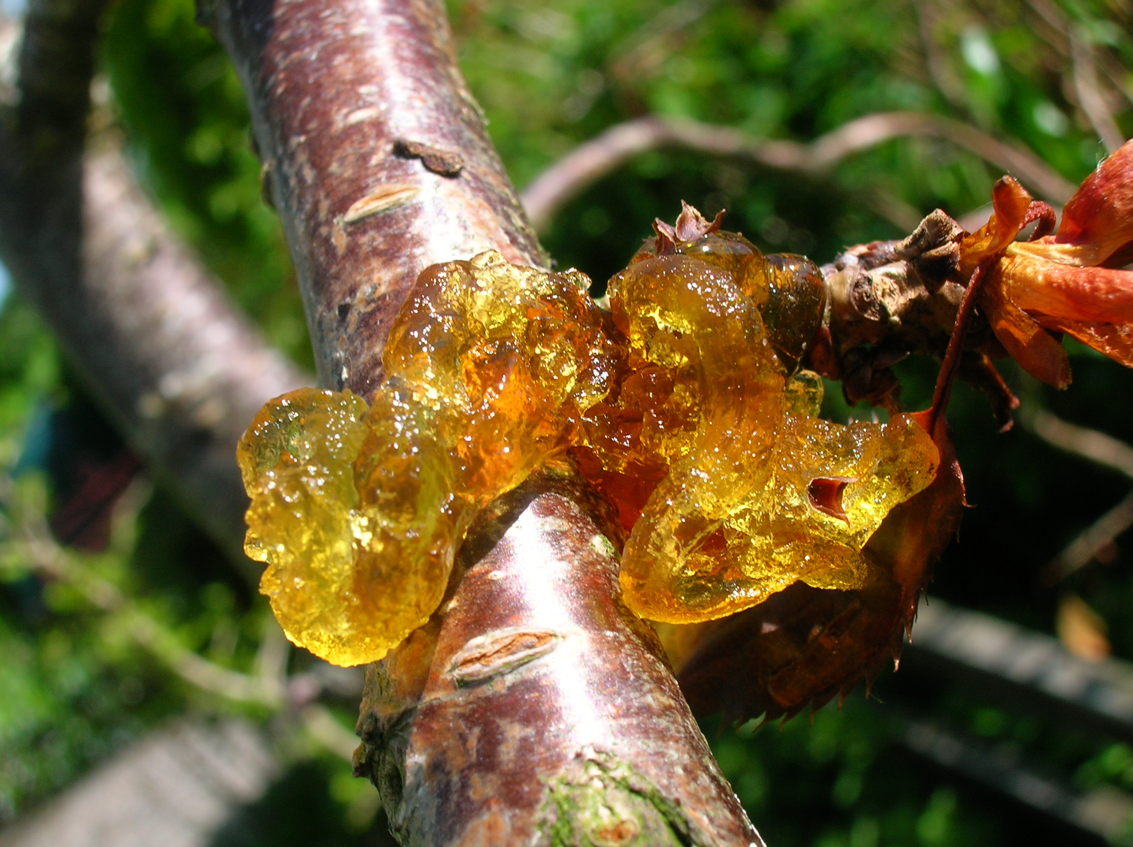 Canker induced Gummosis on an ornamental pendulous cherry. Chapeltoun, Ayrshire, Scotland.